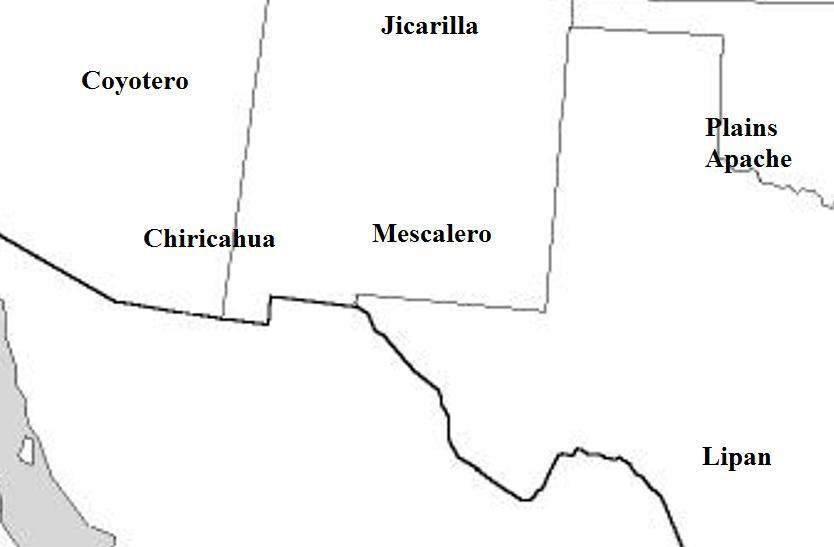 A map of the locations of the principal Apace sub-tribes, ca. 1840.